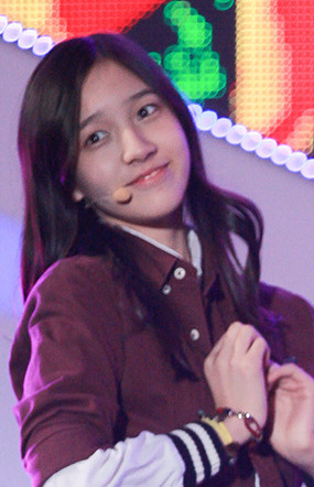 Kim Dani at 2013 Seoul Multicultural Festival